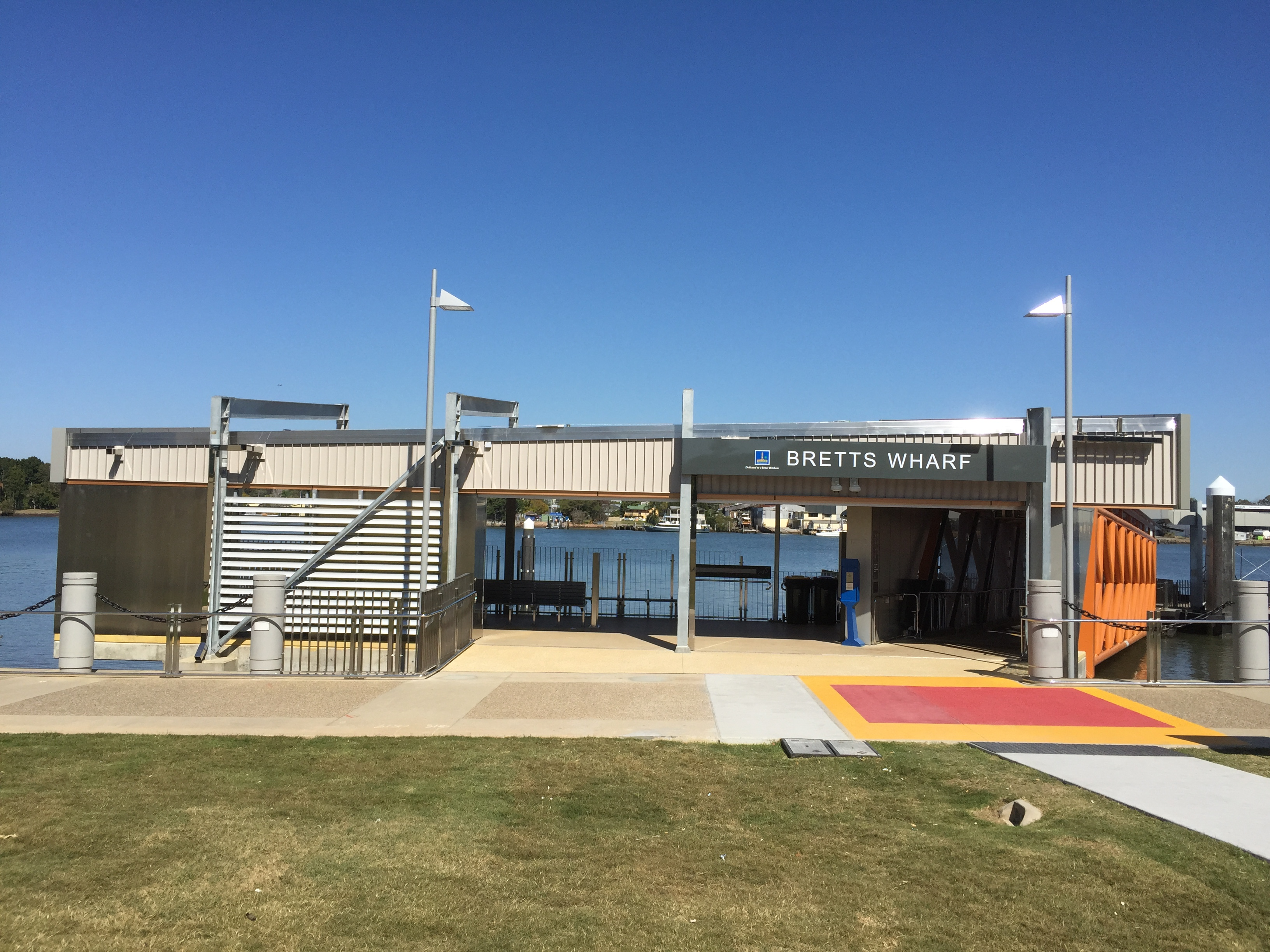 Bretts Wharf in Brisbane in August 2015